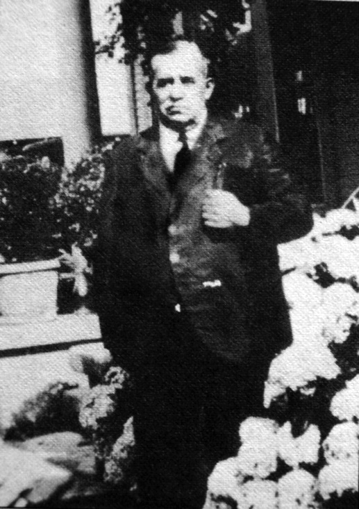 Picture from the early 1930s showing Giacomo Lombardi (1862–1934) was an Italian pentecostal preacher.